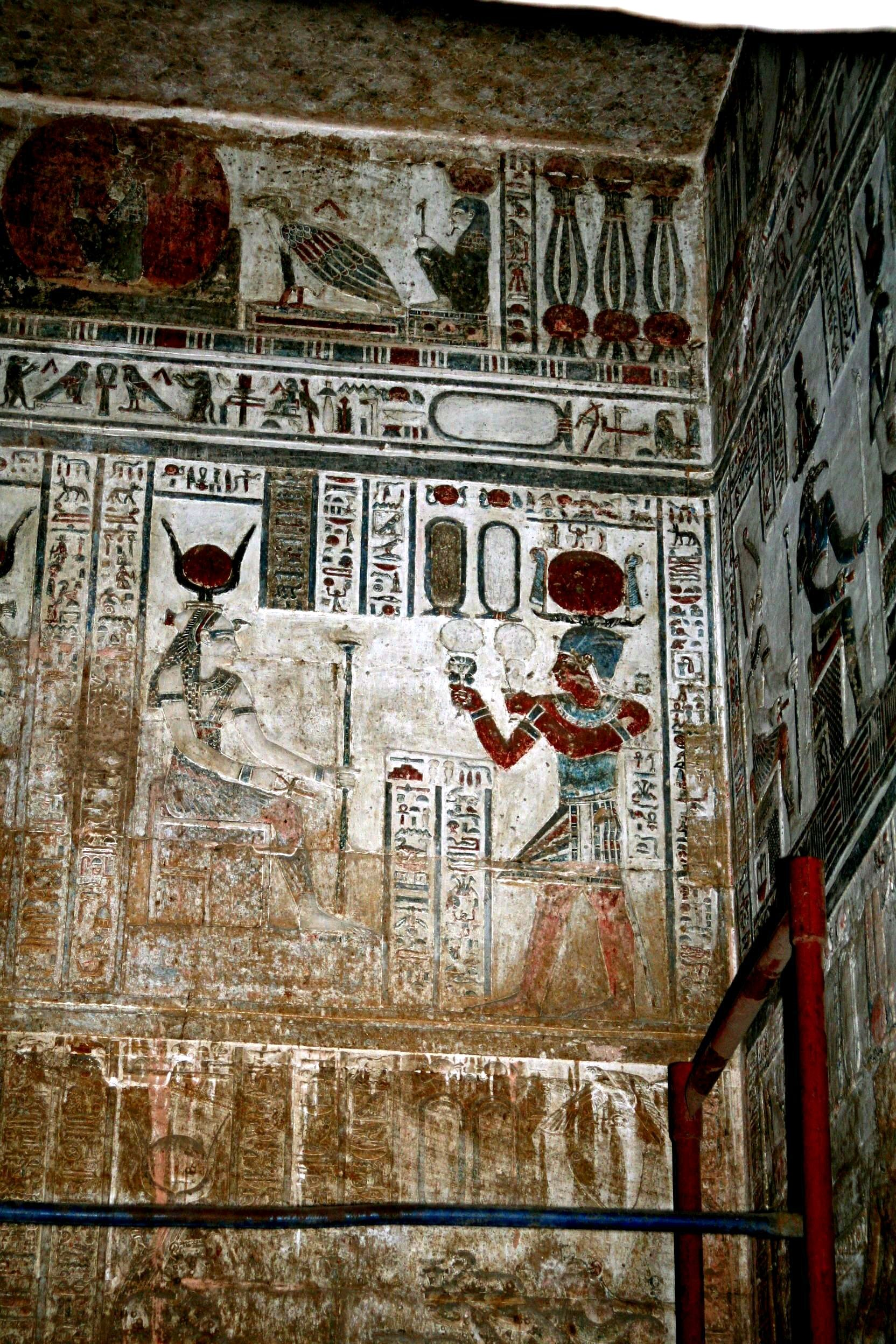 The Temple of Hathor at Dendera